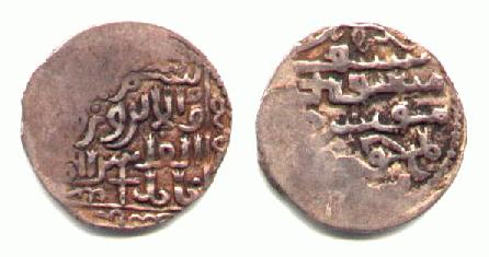 A silver dirham coin (21 mm) minted in Tbilisi, Georgia, in the name of the Mongol Great Khan Abaqa (1265-81) bears Christian inscriptions.